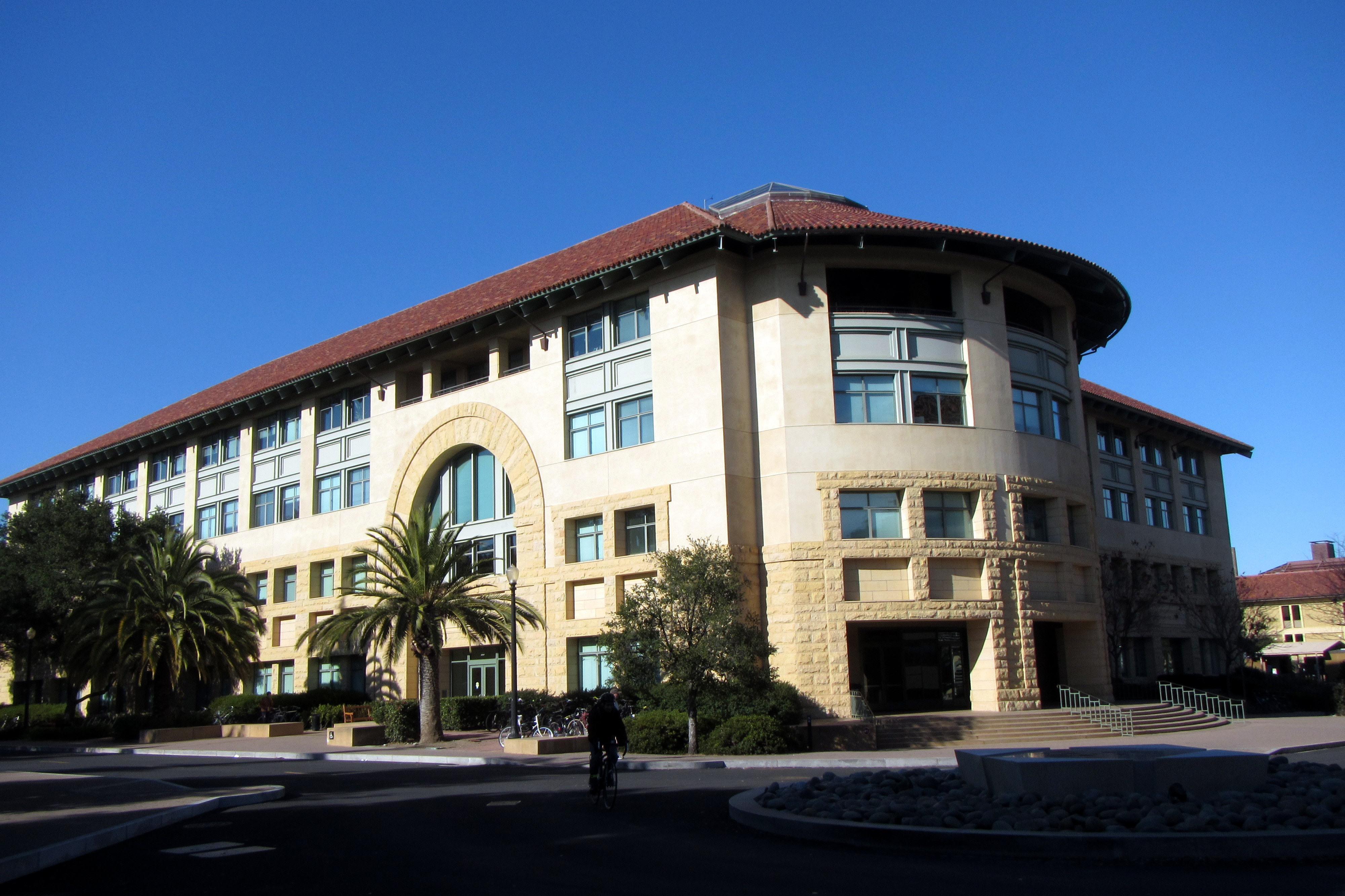 View of the William Gates Computer Science Building at Stanford University.